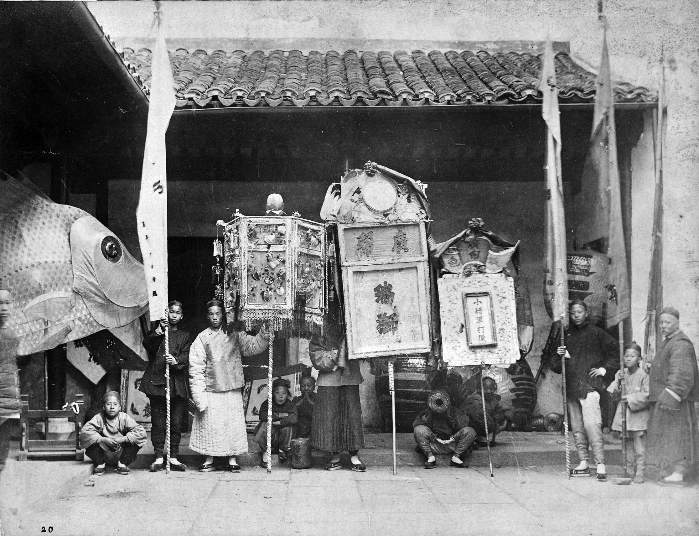 Photograph in People and views of China.